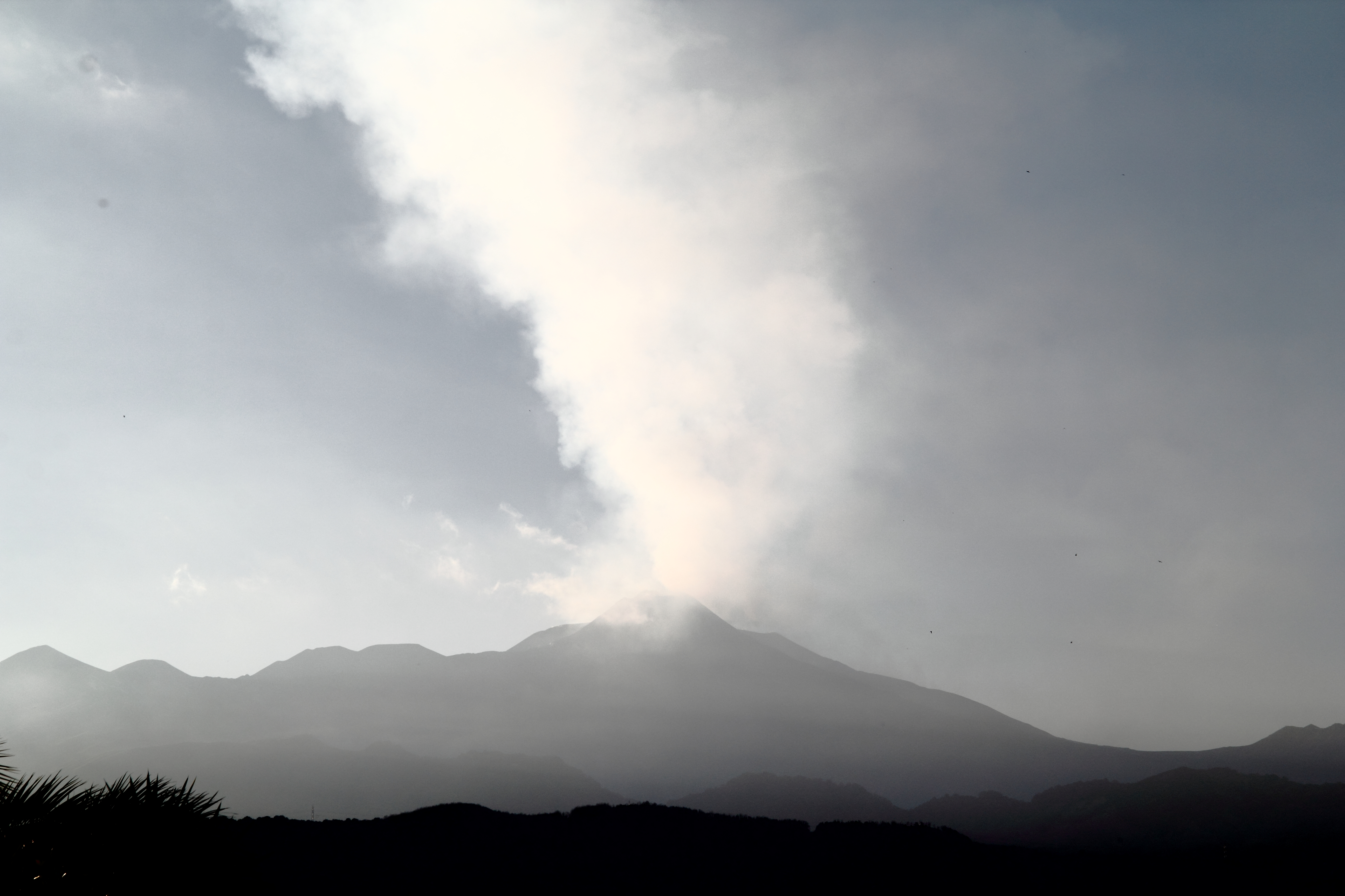 Zafferana Etnea, Sicily: Mount Etna volcano